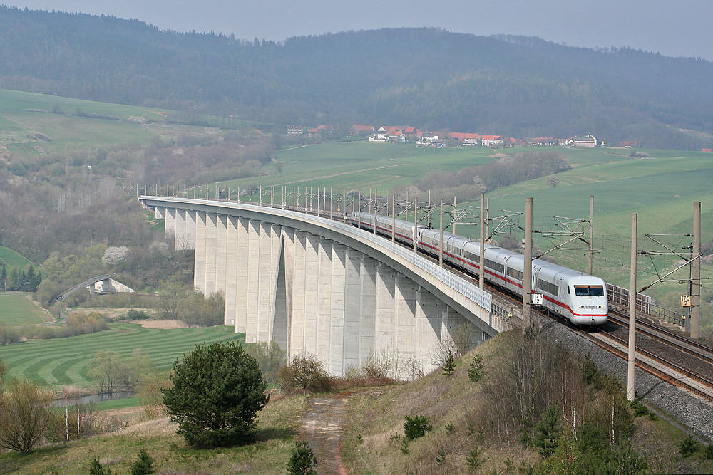 Fuldatal Bridge near Altmorschen, Fulda-Kassel high-speed railway line.